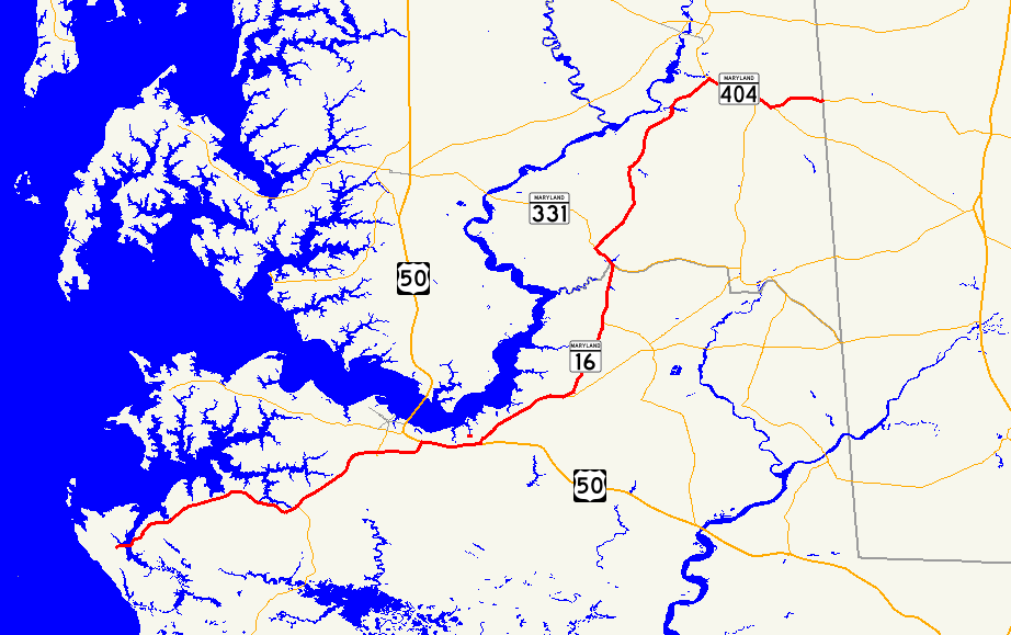 Map of Maryland Route 16